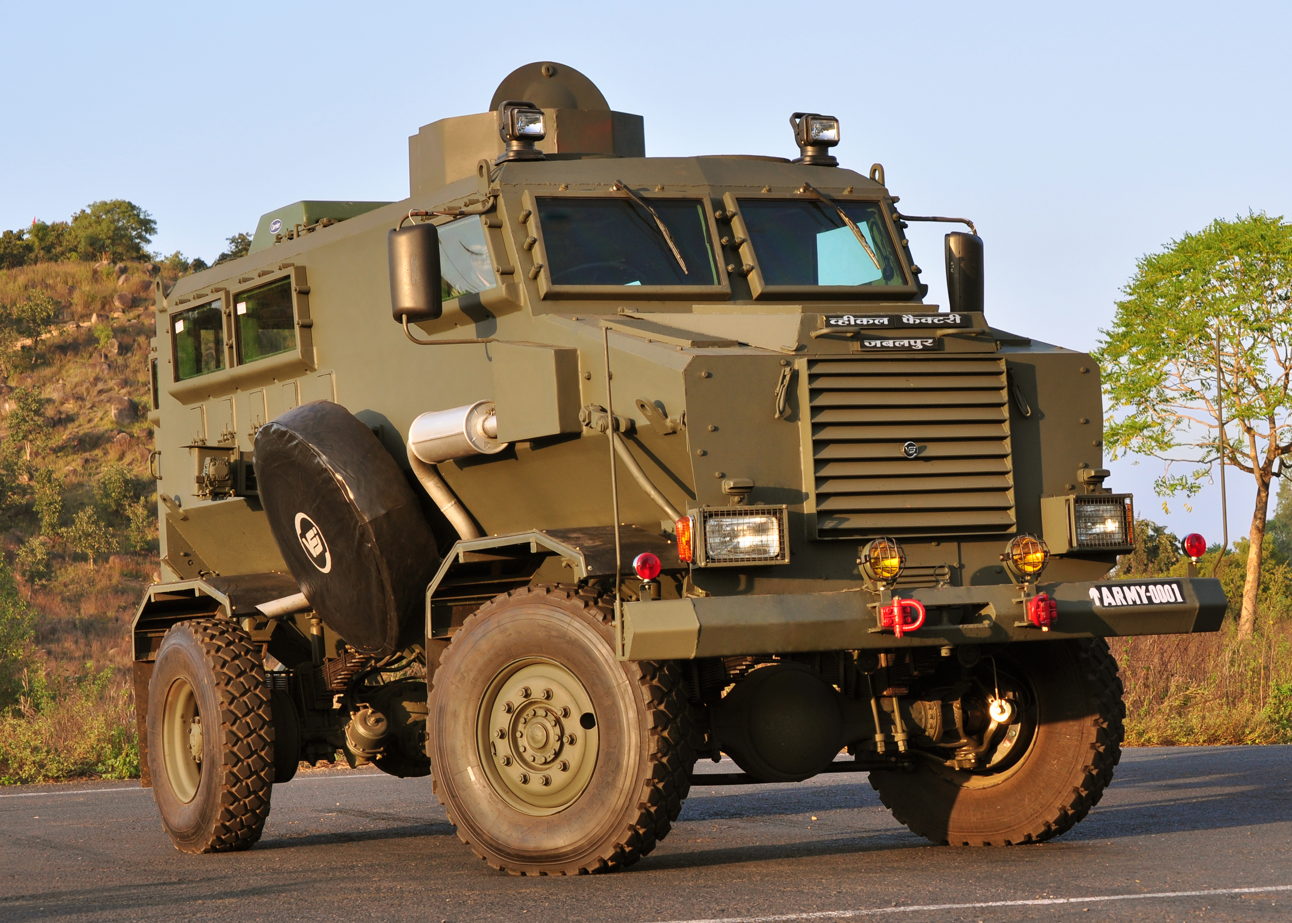 Ordnance Factory Board Vehicle Factory Jabalpur (VFJ)'s Mine Protected Vehicle